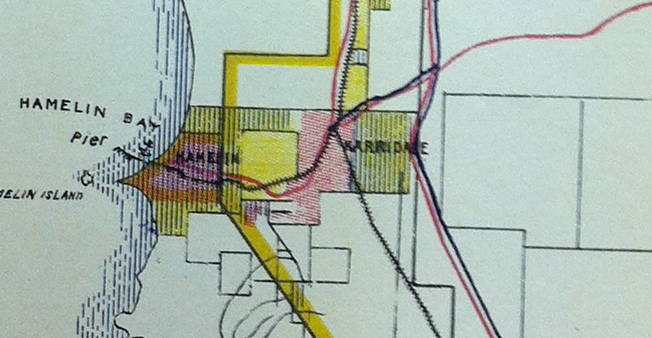 Hamelin Bay, Western Australia and Karridale, Western Australia section copied and extracted from map of 1899 - Citation